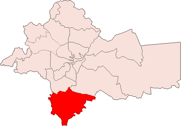 AMMAN-Khraibet Essouq.png — Maps of Amman User:Tarawneh/rami